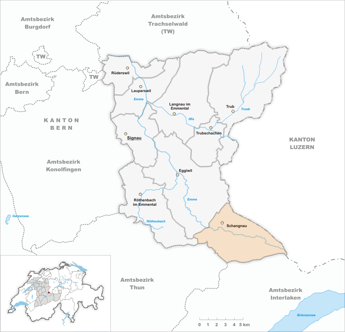 Municipality Schangnau